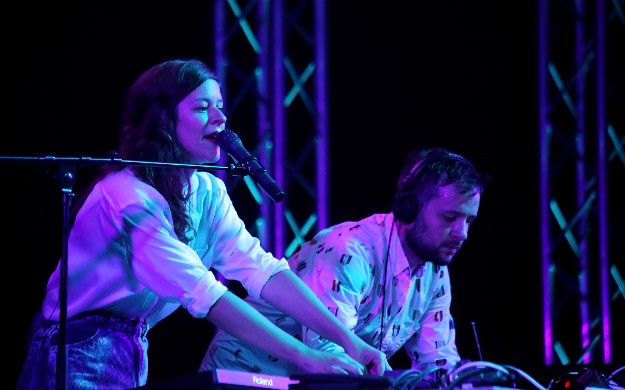 HVOB (Her Voice Over Boys), concert at Karlsplatz during Popfest 2013 in Vienna, Austria.